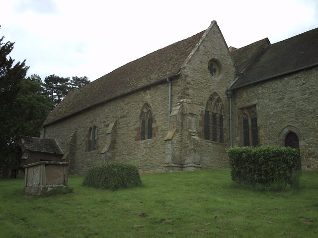 South aisle of St Bartholomew's parish church, Richard's Castle, Herefordshire, England, seen from the east